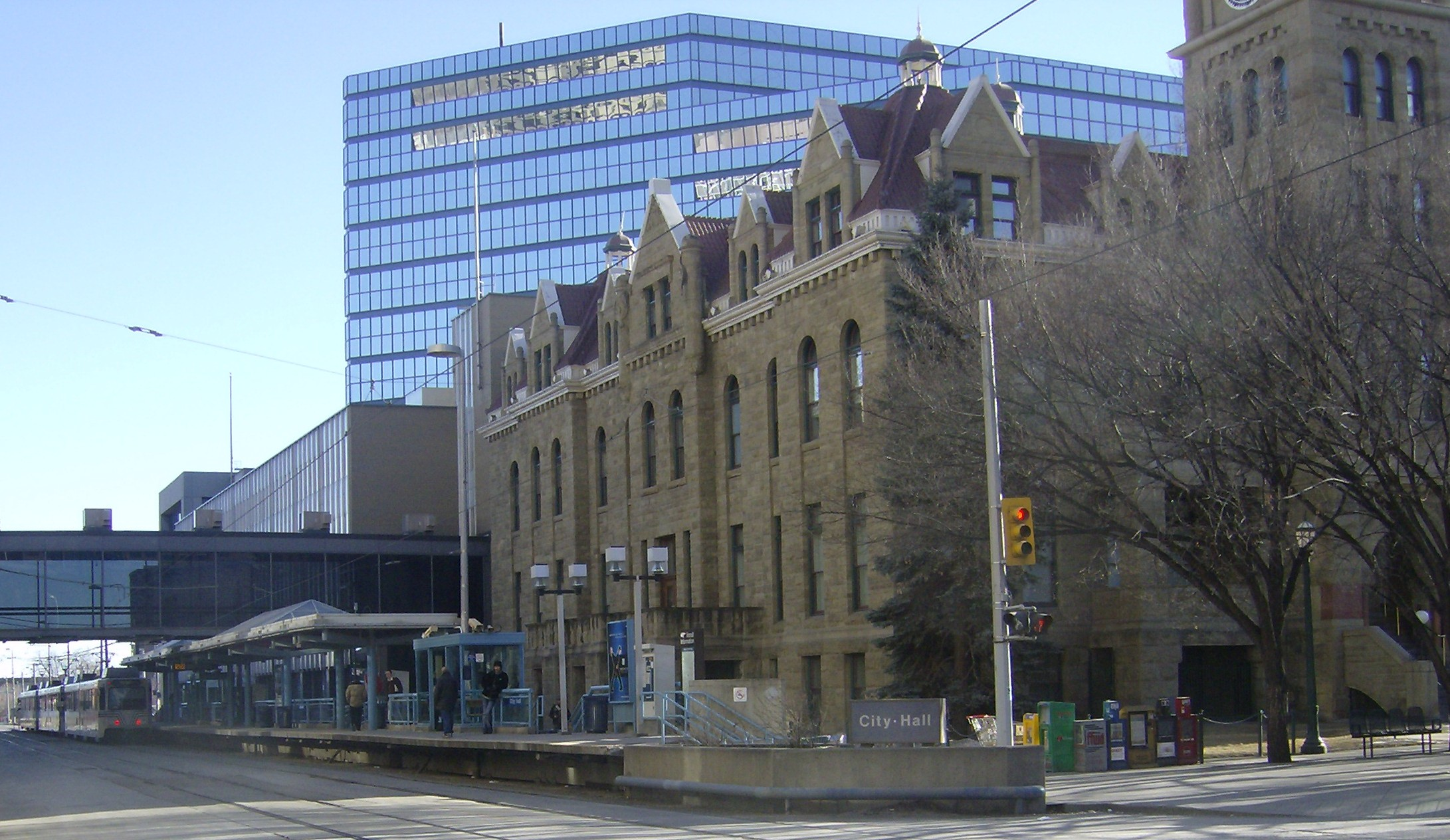 A C-Train departs the City Hall C-Train platform in Calgary, Alberta, Canada. City Hall is behind the platform. 7 Avenue South is in front.